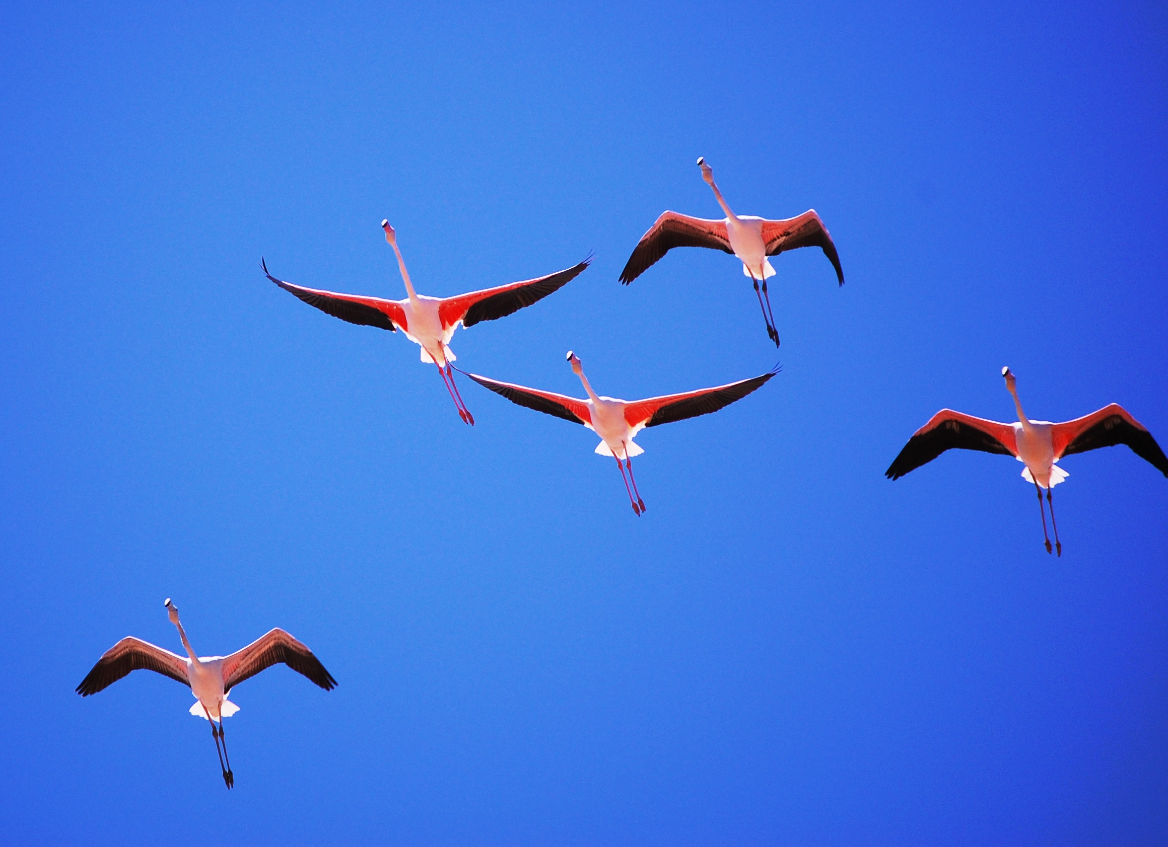 Flying Greater Flamingoes Phoenicopterus roseus, Spain